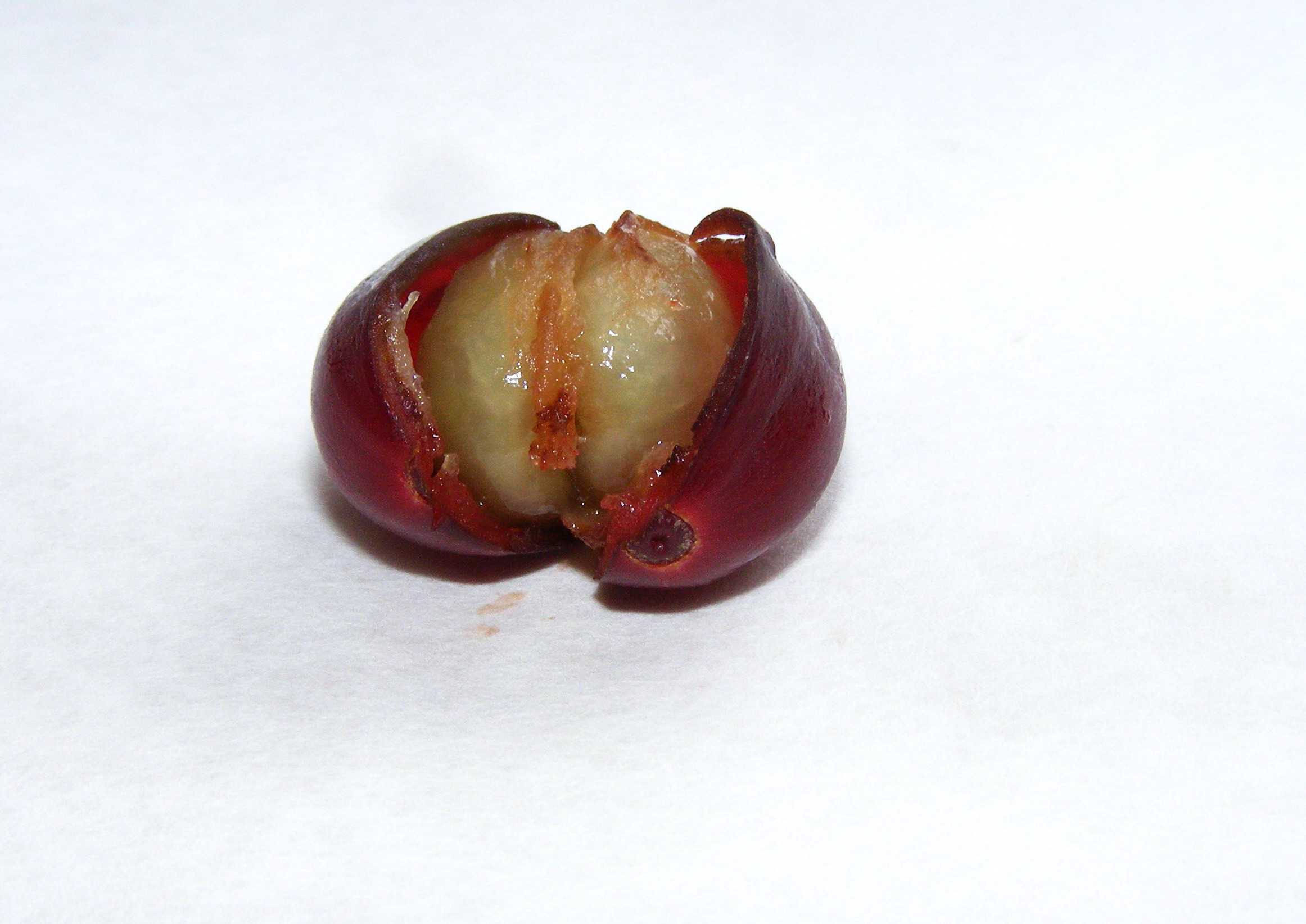 Coffee